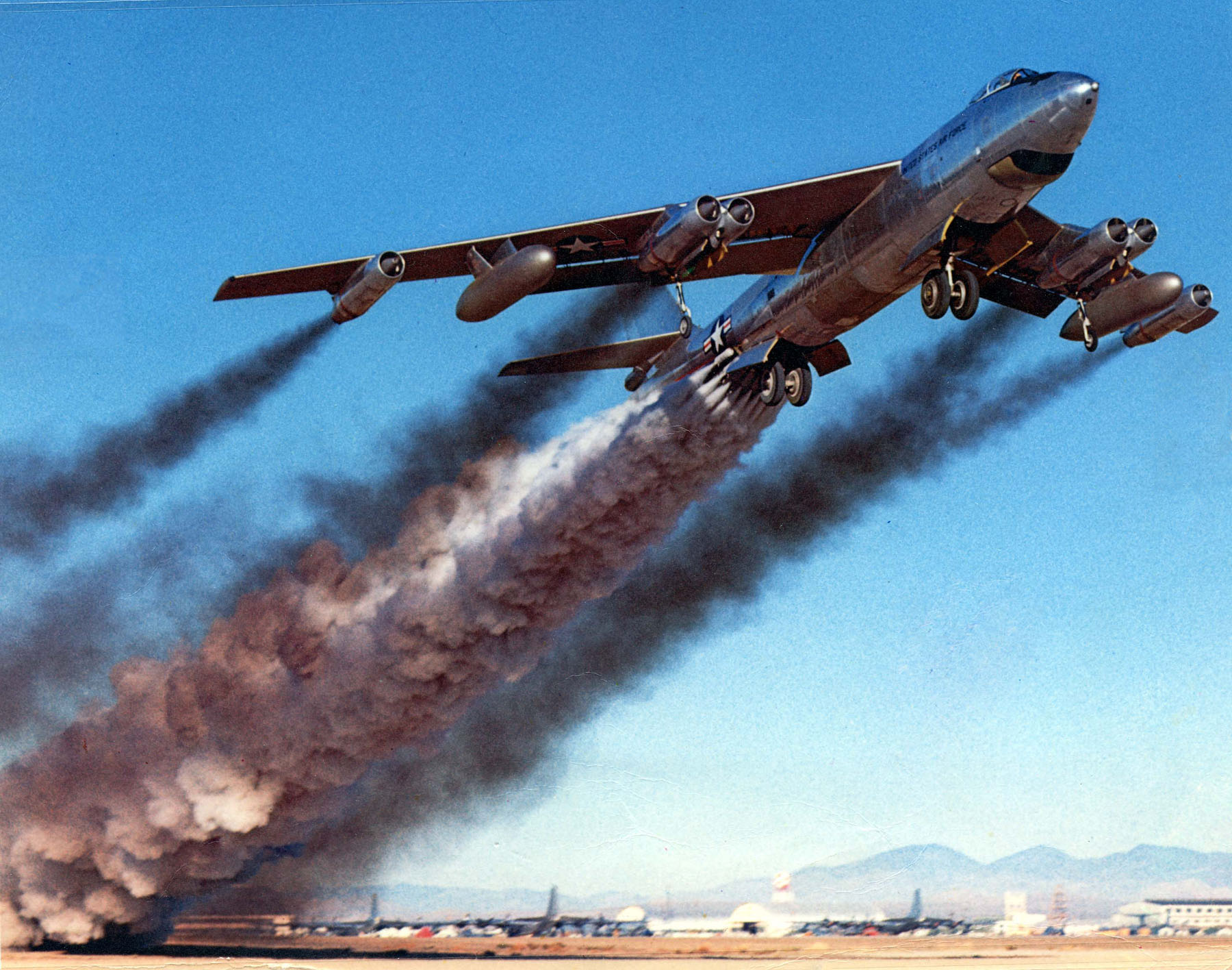 Boeing B-47B rocket-assisted take off. Black smoke from engines indicates water-methanol injection is in use.